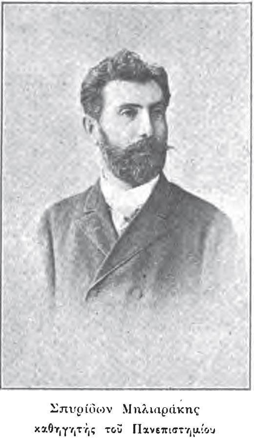 Hestia (1876) Author: Diomedes, Paulos Subject: Greek literature, Modern; Greek periodicals Publisher: [Athēnēsi : s.n. Year: 1894 Possible copyright status: NOT_IN_COPYRIGHT Language: Greek Digitizing sponsor: Google Book from the collections of: Harvard University Collection: americana]